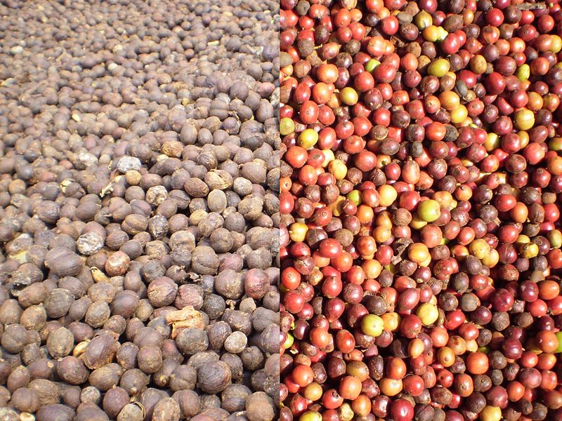 Robusta coffee beans after harvesting (right) and after being dried (left)